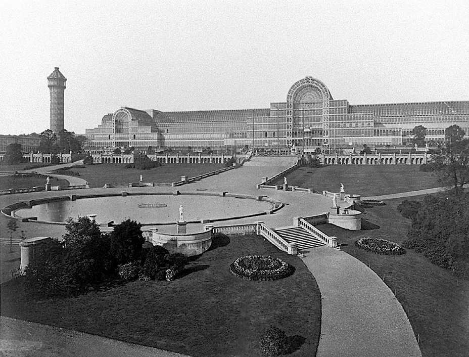 The Crystal Palace, general view from the Water Temple.